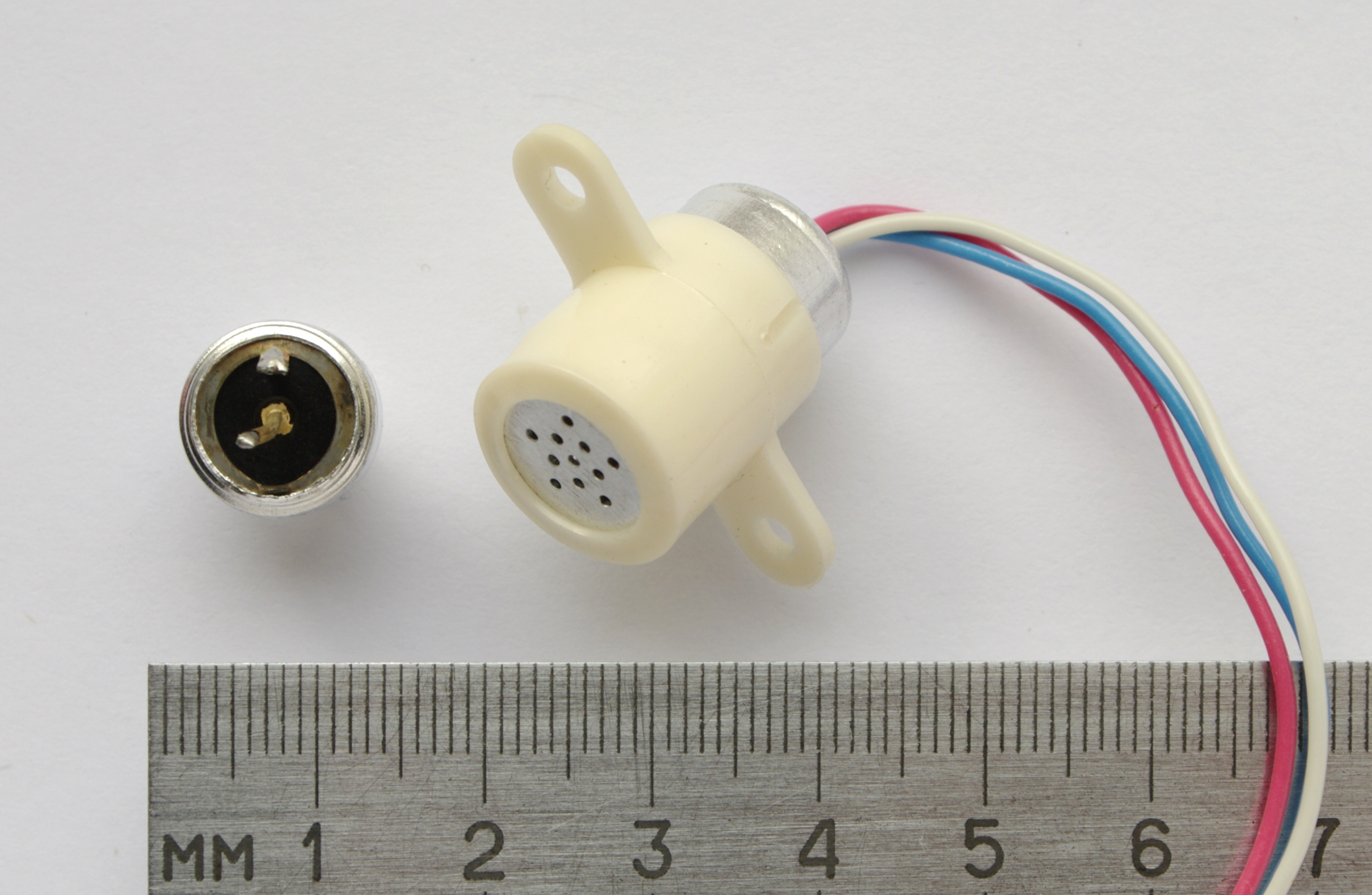 On left side: capsule (condenser only) of electret microphone MKE-3 (russia). On right side: whole microphone MKE-3.